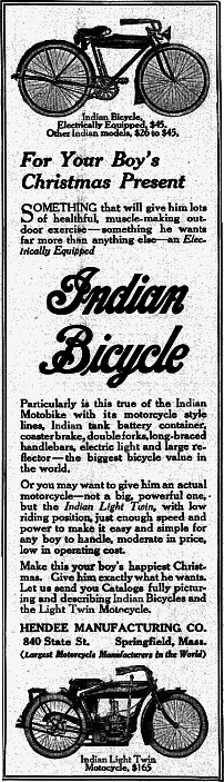 Advertisement for Indian bicycles and motorcycles copied from Page 45 of December 1916 issue of Boys' Life magazine